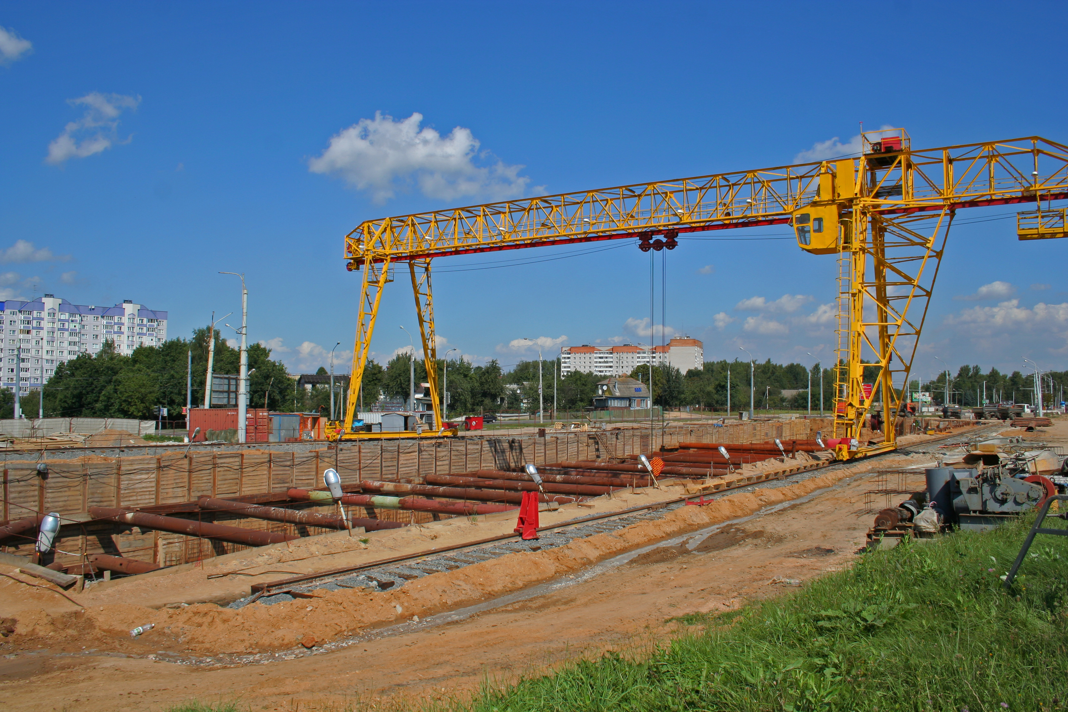 Views of Minsk (Belarus). The metro. Construction site on Dzerzhinsky avenue.